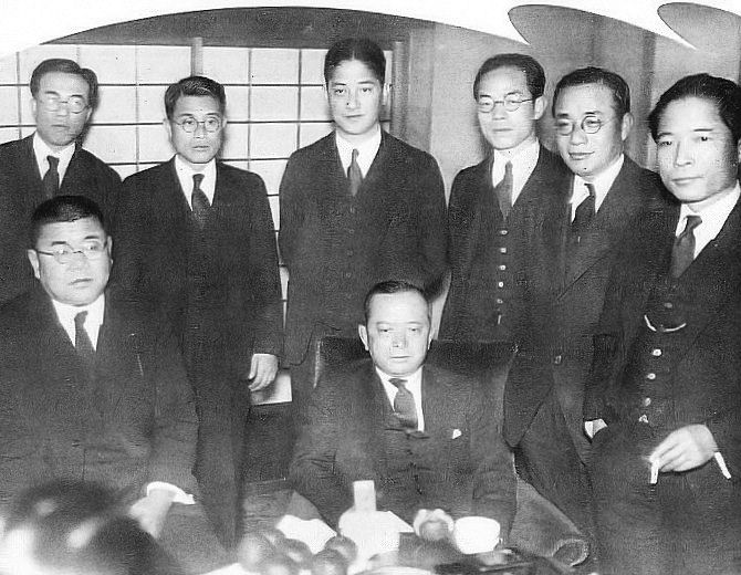 Hiraga Purge